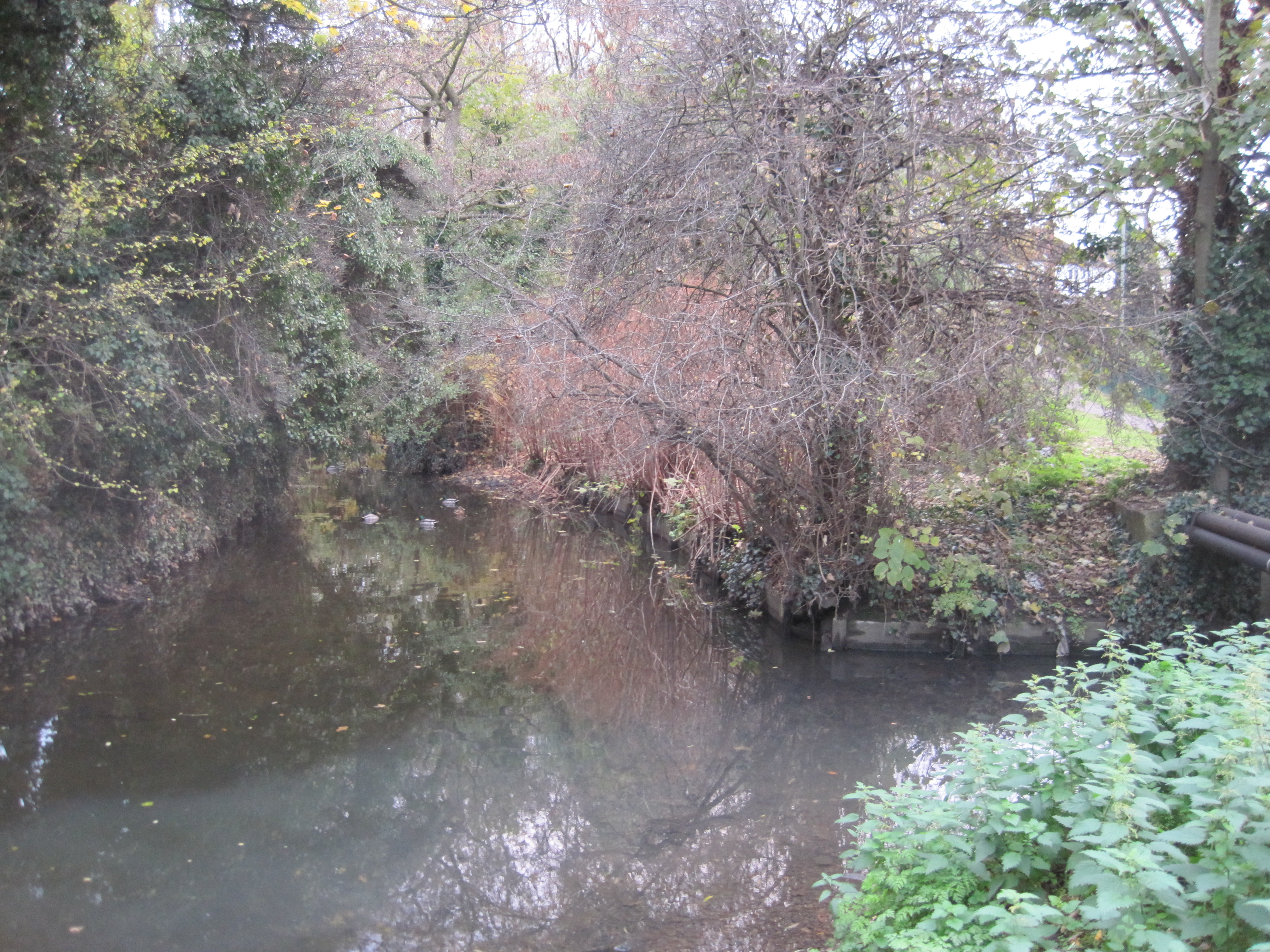 Origin of the River Brent at the junction of the Dollis and Mutton Brooks, Temple Fortune, Barnet, London